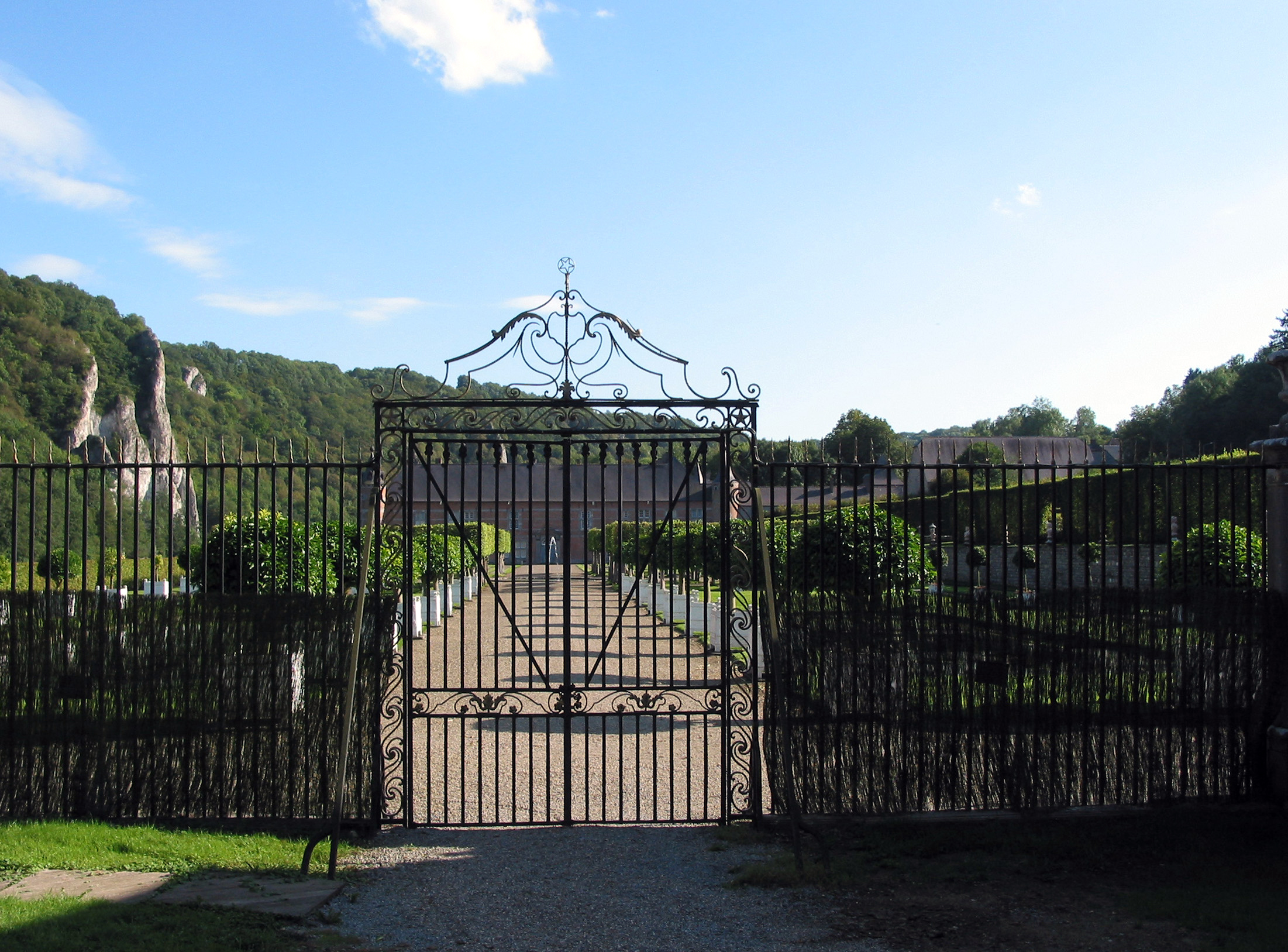 Northern view on the castle of Freÿr (Waulsort) and its gardens (XVII/XVIIIth centuries).